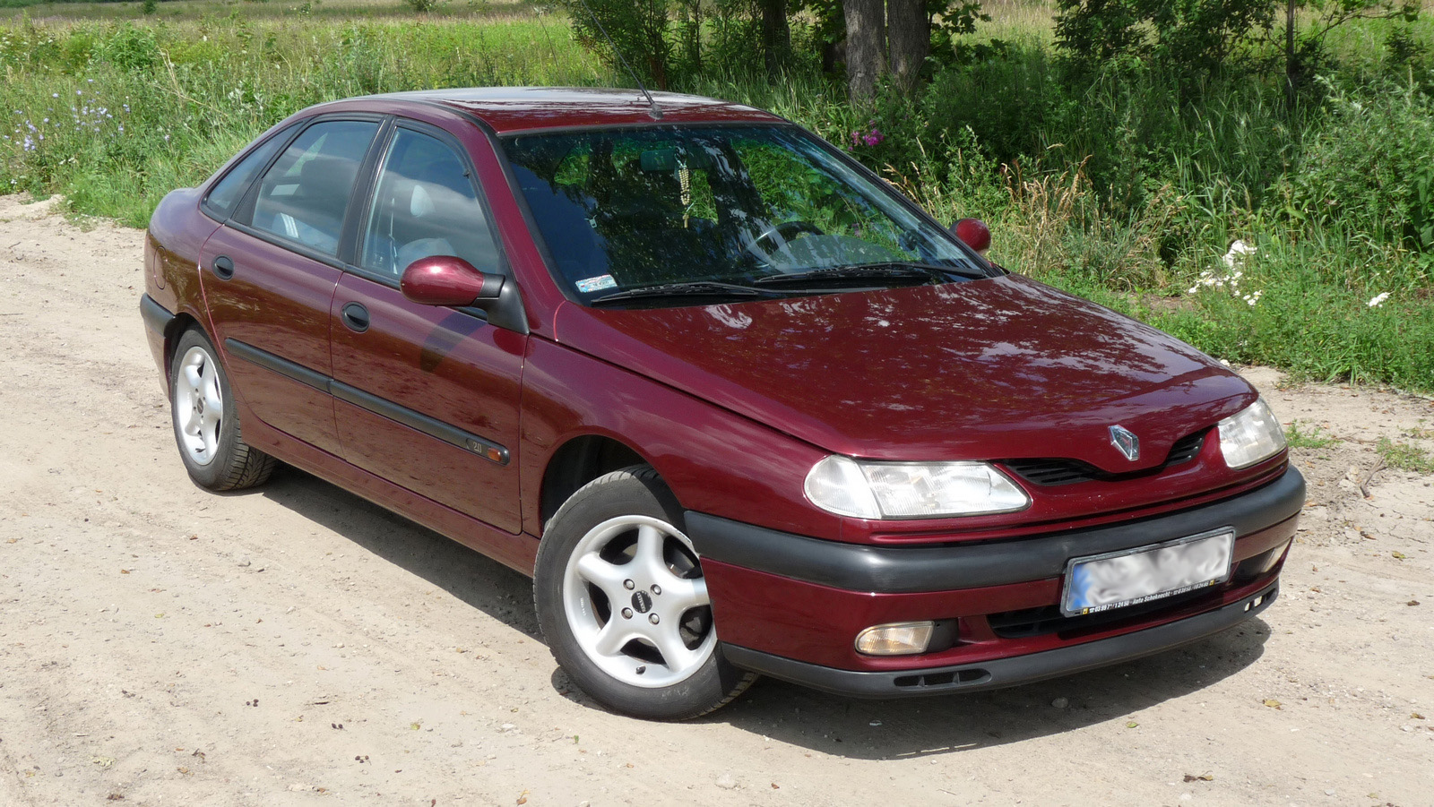 Renault Laguna I Phase I - Front